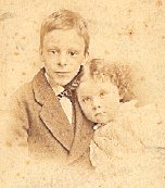 Frank Russell, later 2nd Earl Russell, and his sister Rachel (d. 1874). Their younger brother was Betrand Russell, 3rd Earl Russell.